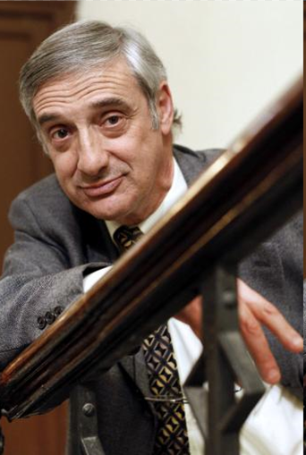 Professor Joel Mokyr